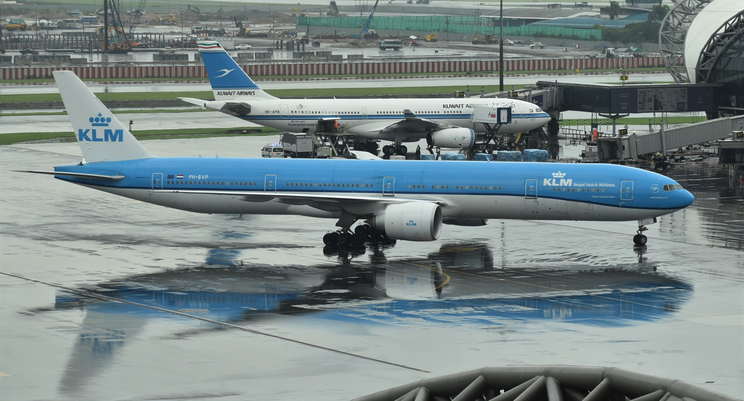 Boeing 777/3 of KLM Royal Dutch Airlines at Bangkok-BKK,Thailand, 17/05/17.